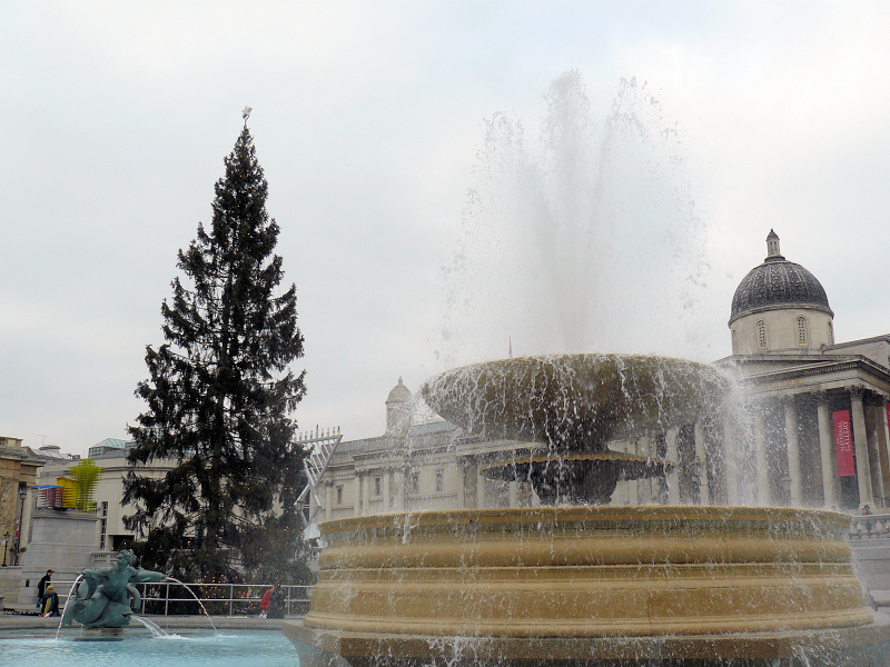 Trafalgar Square Christmas tree and the National Gallery. Trafalgar Square, Christmas Day 2008.